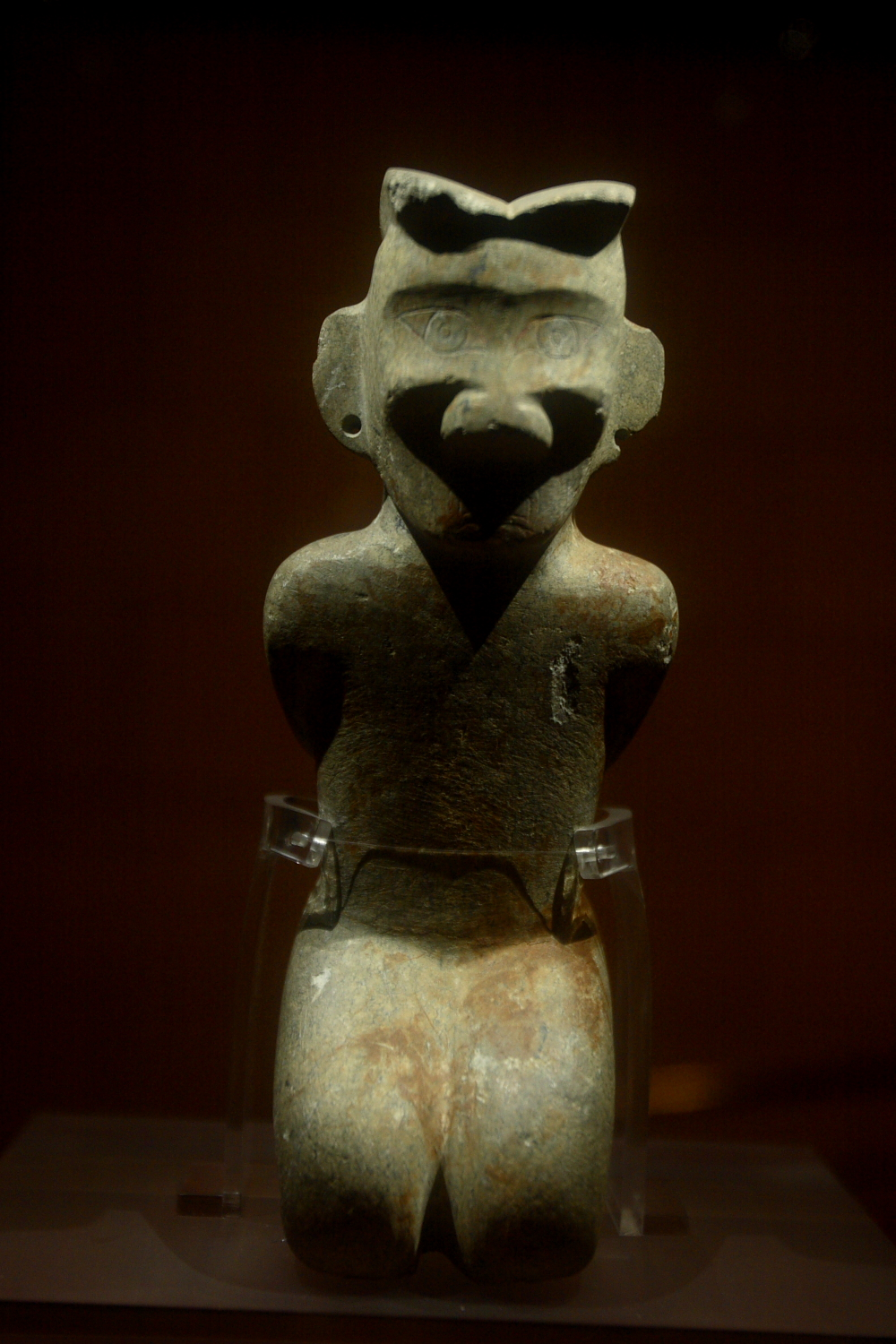 Stone man in Jinsha archaeological site, Chengdu China